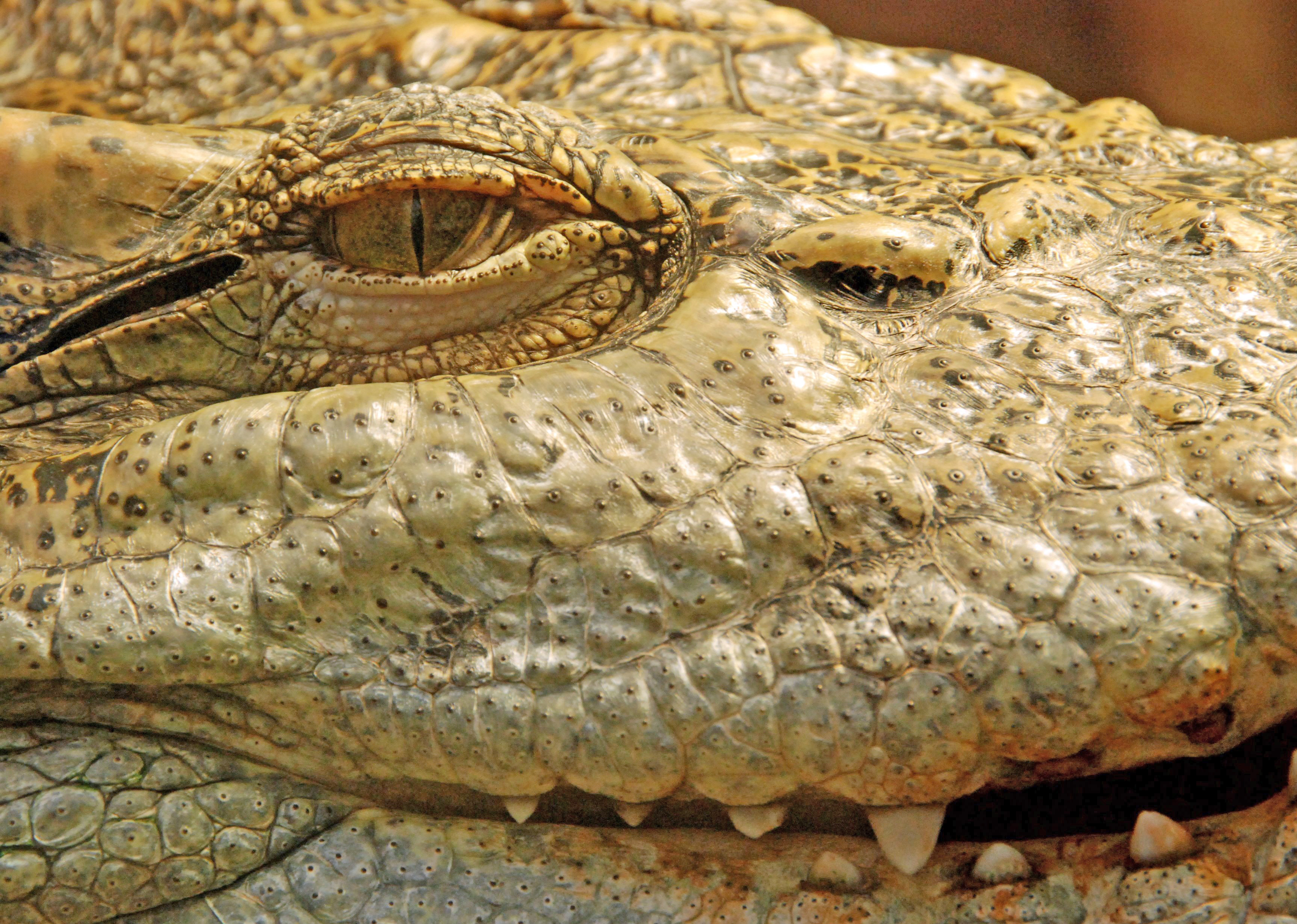 Crocodylus_siamensis (Servion zoo / Switzerland)